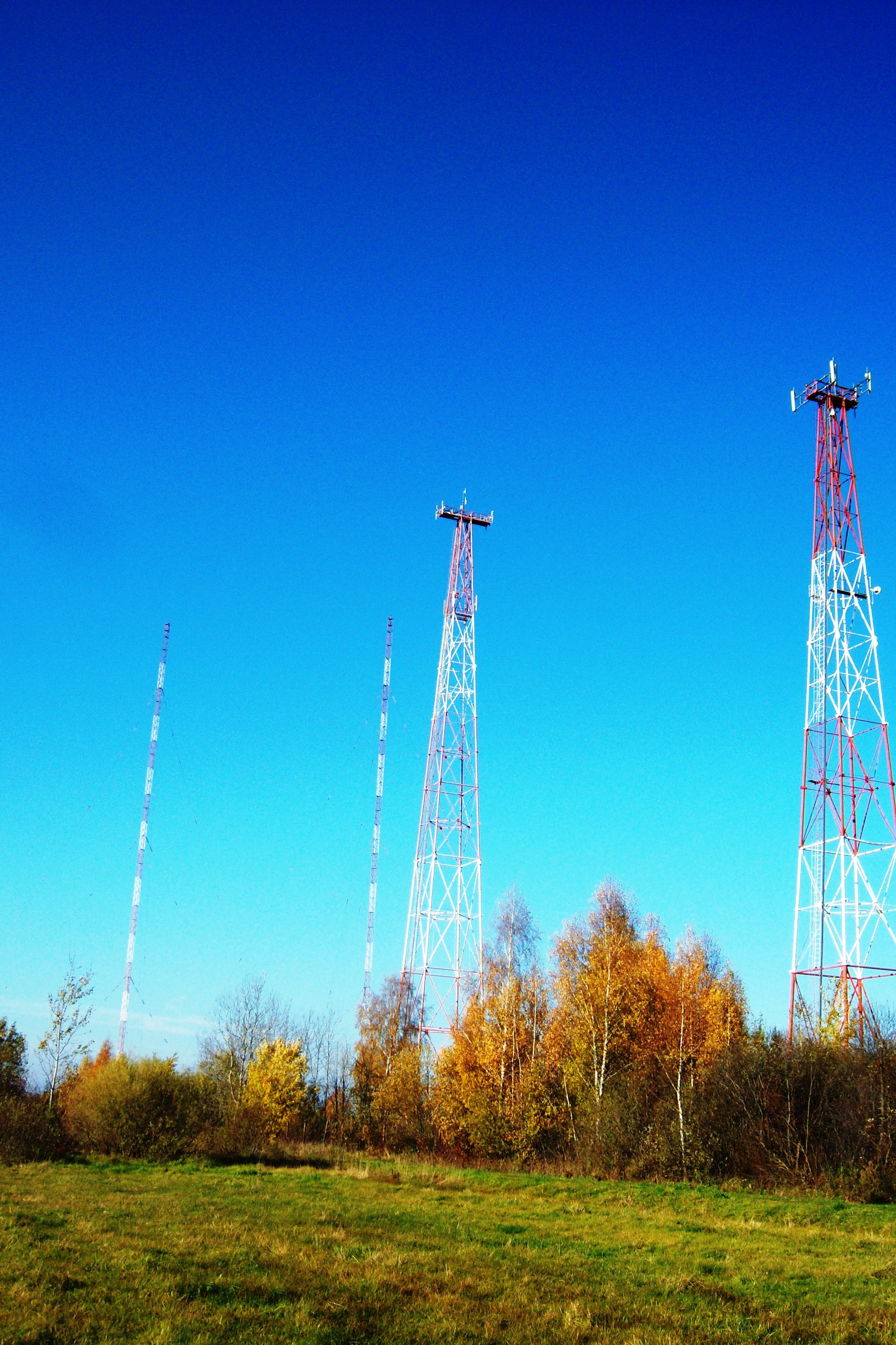 Sitkūnai radio antenna masts, Kaunas district, Lithuania